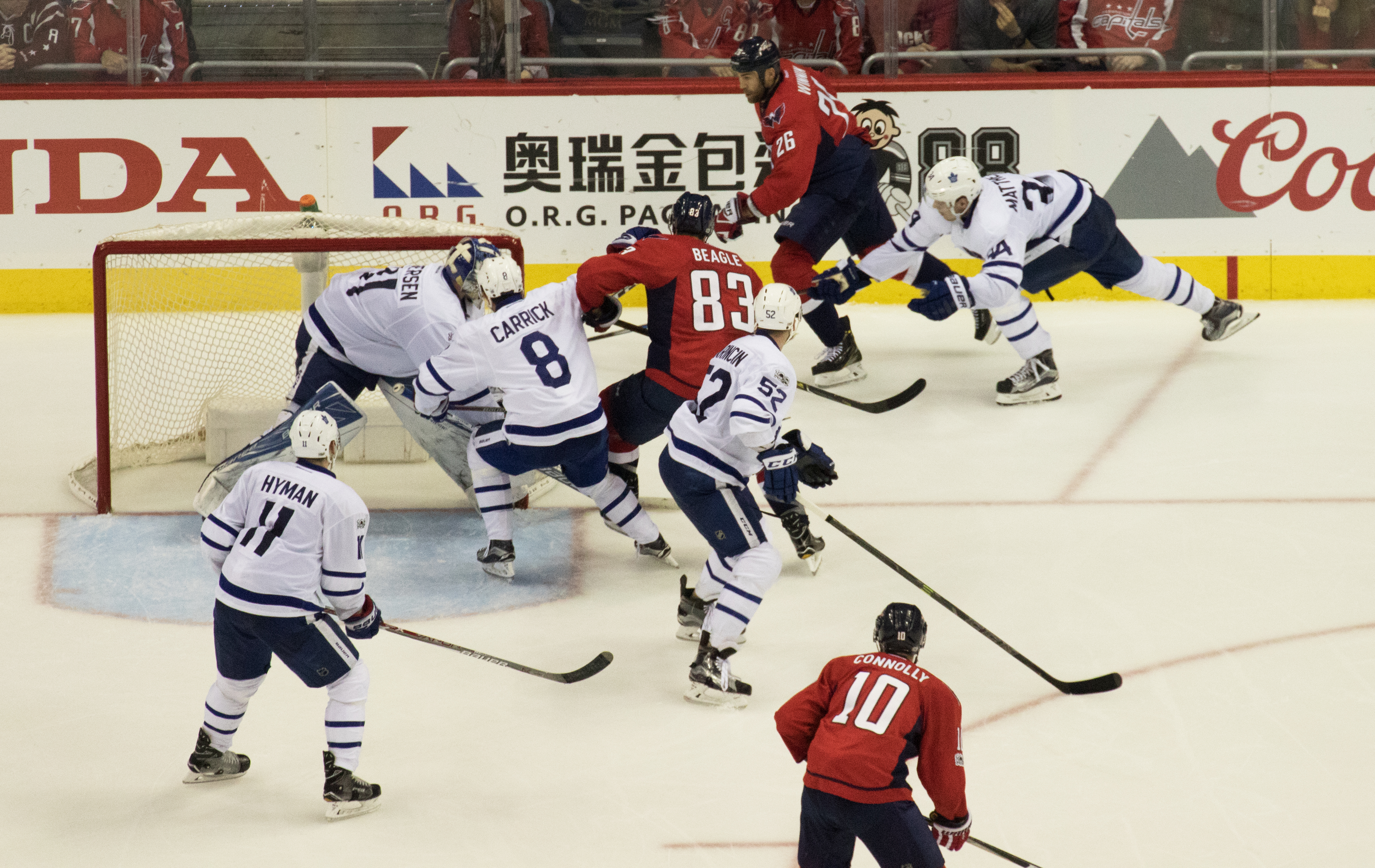 NHL 2017 Playoffs, Round 1, Game 5: Capitals 2, Toronto Maple Leafs 1